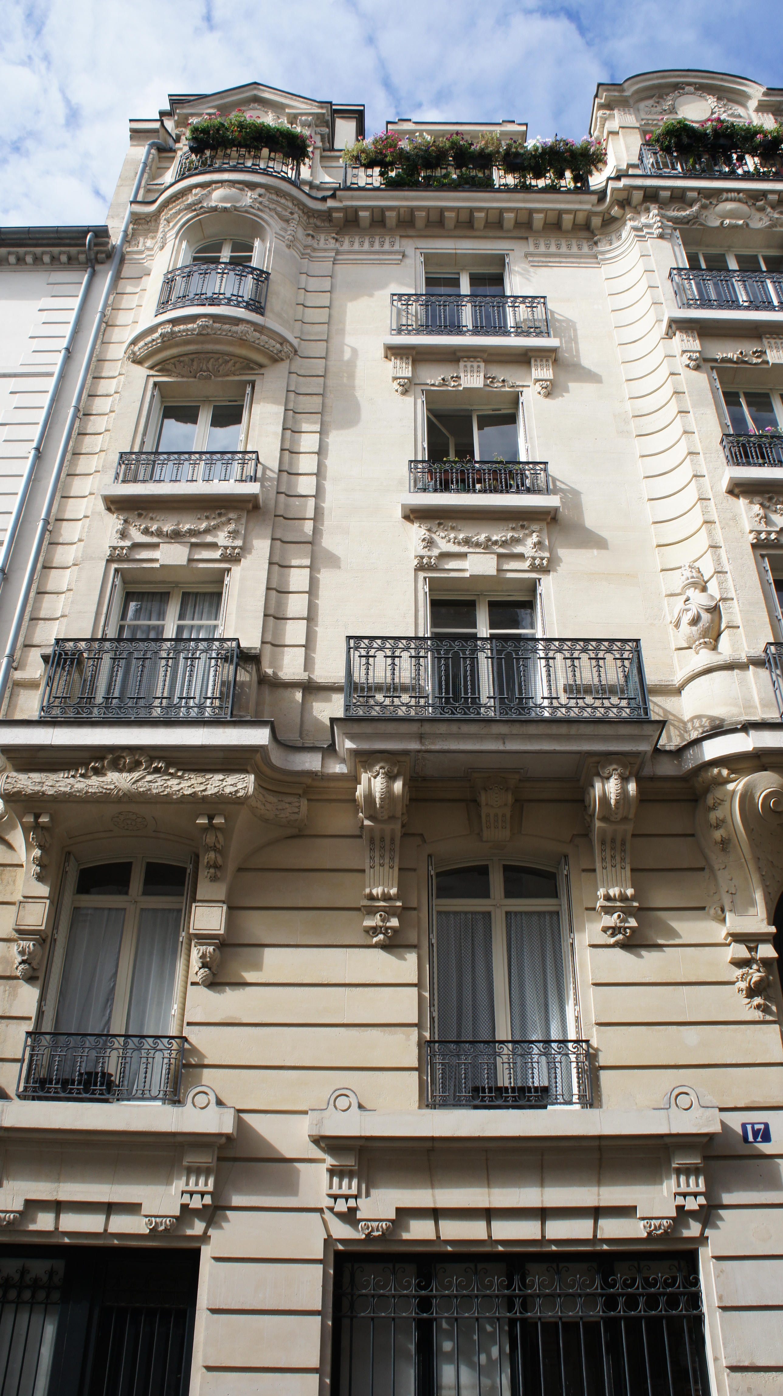 Paris residence of jim morrison